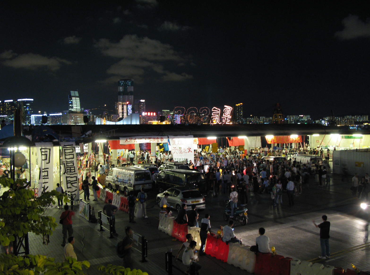 Queen's Pier Last Night